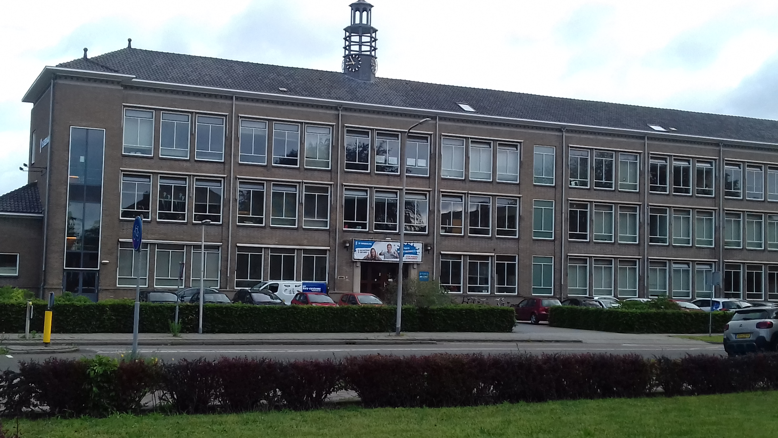 School building of the Etty Hillesum Lyceum location De Boerhaave in Deventer, The Netherlands